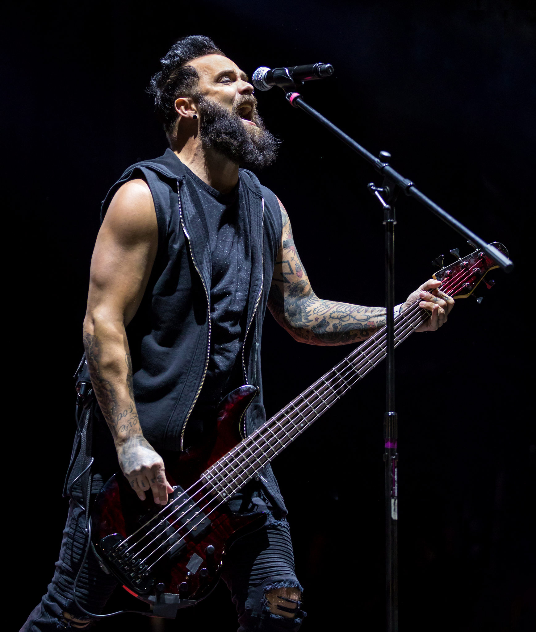 Skillet performing at the Fiesta Oyster Bake in San Antonio, Texas on April 22, 2017.